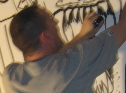 Inkie at Secret Wars on 1.27.07.